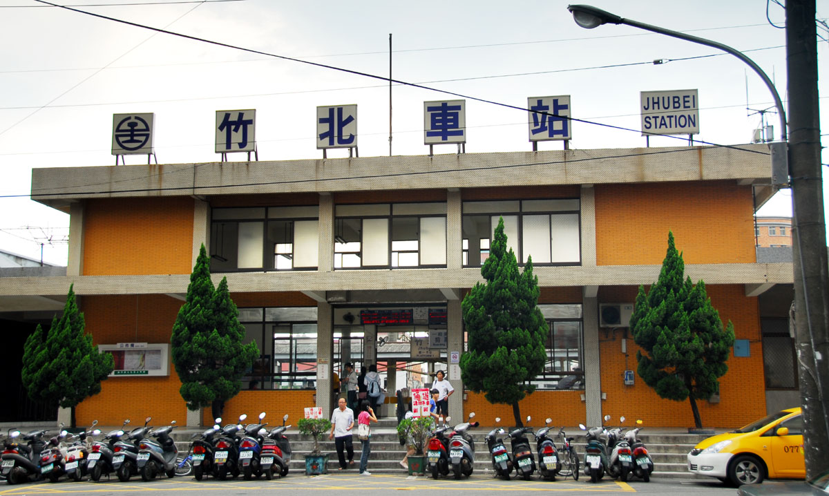 JhuBei Station is a local train station of Taiwan's Western main rail line. The station is the main station of JhuBei City, Hsinchu County.